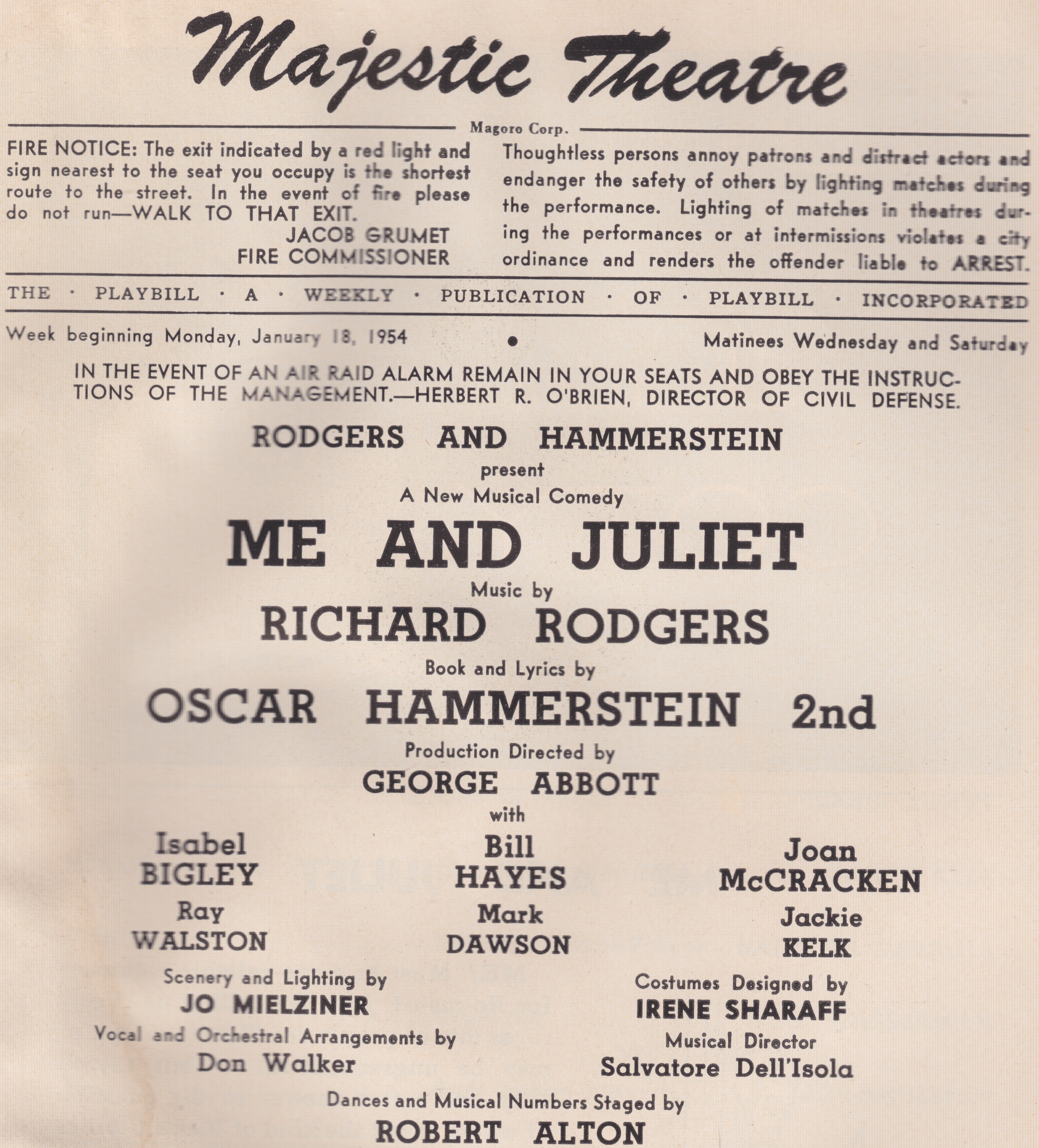 Page 13 from the playbill for Me and Juliet. I searched every page, there is no assertion of copyright or copyright symbol.